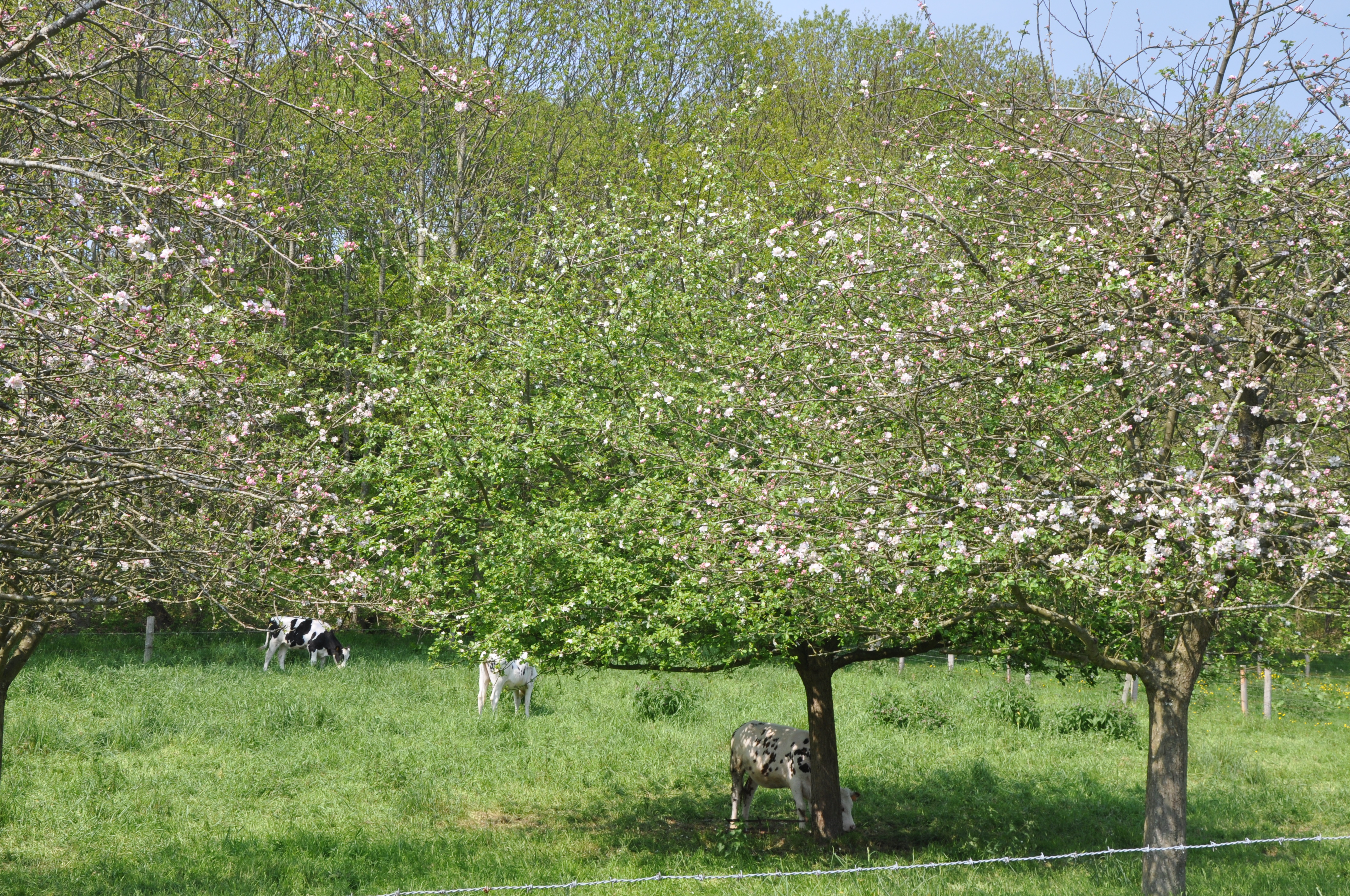 Le Tilleul (France, Normandy), apple orchard with grazing cows